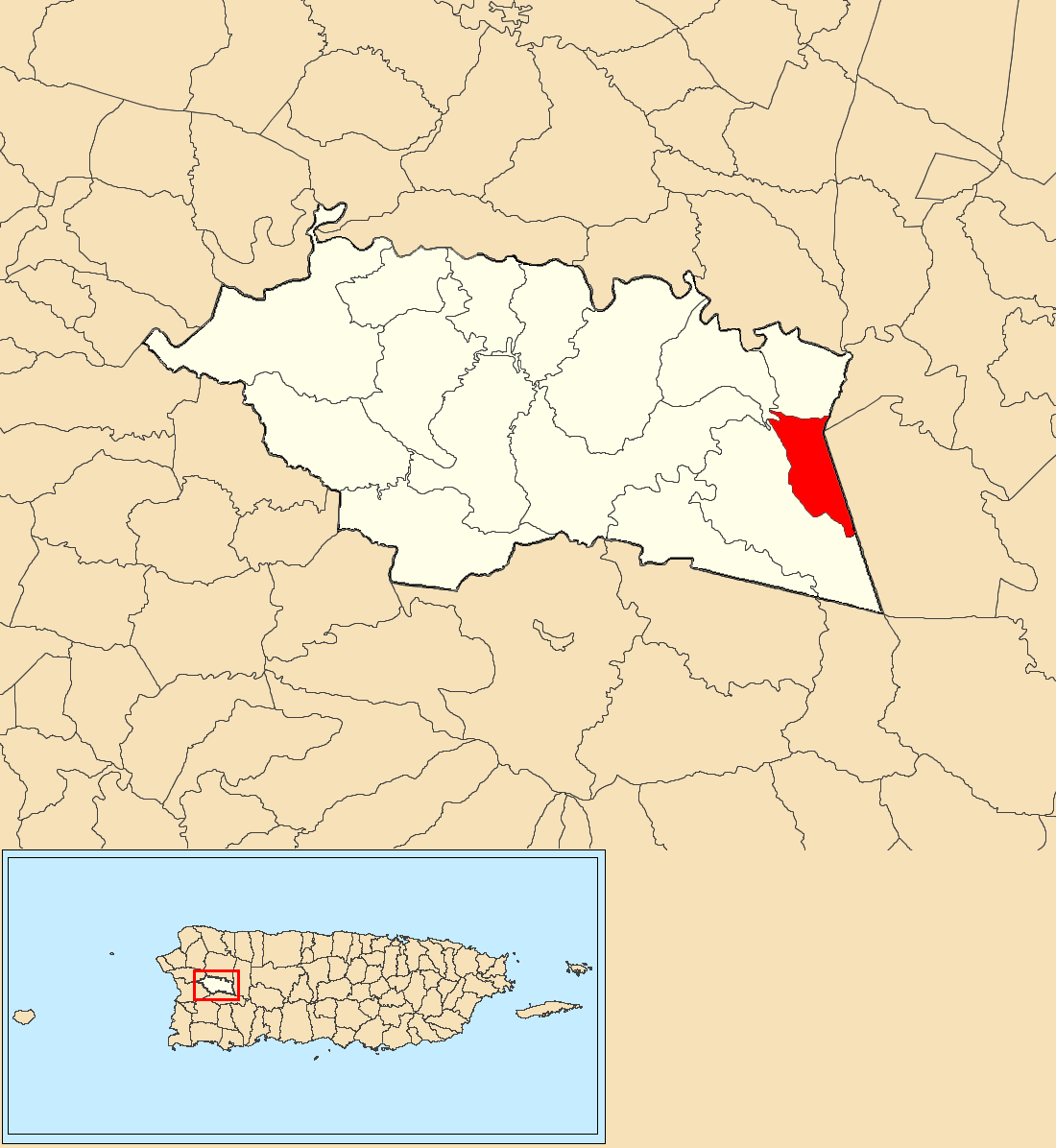 Chamorro, Las Marías, Puerto Rico locator map